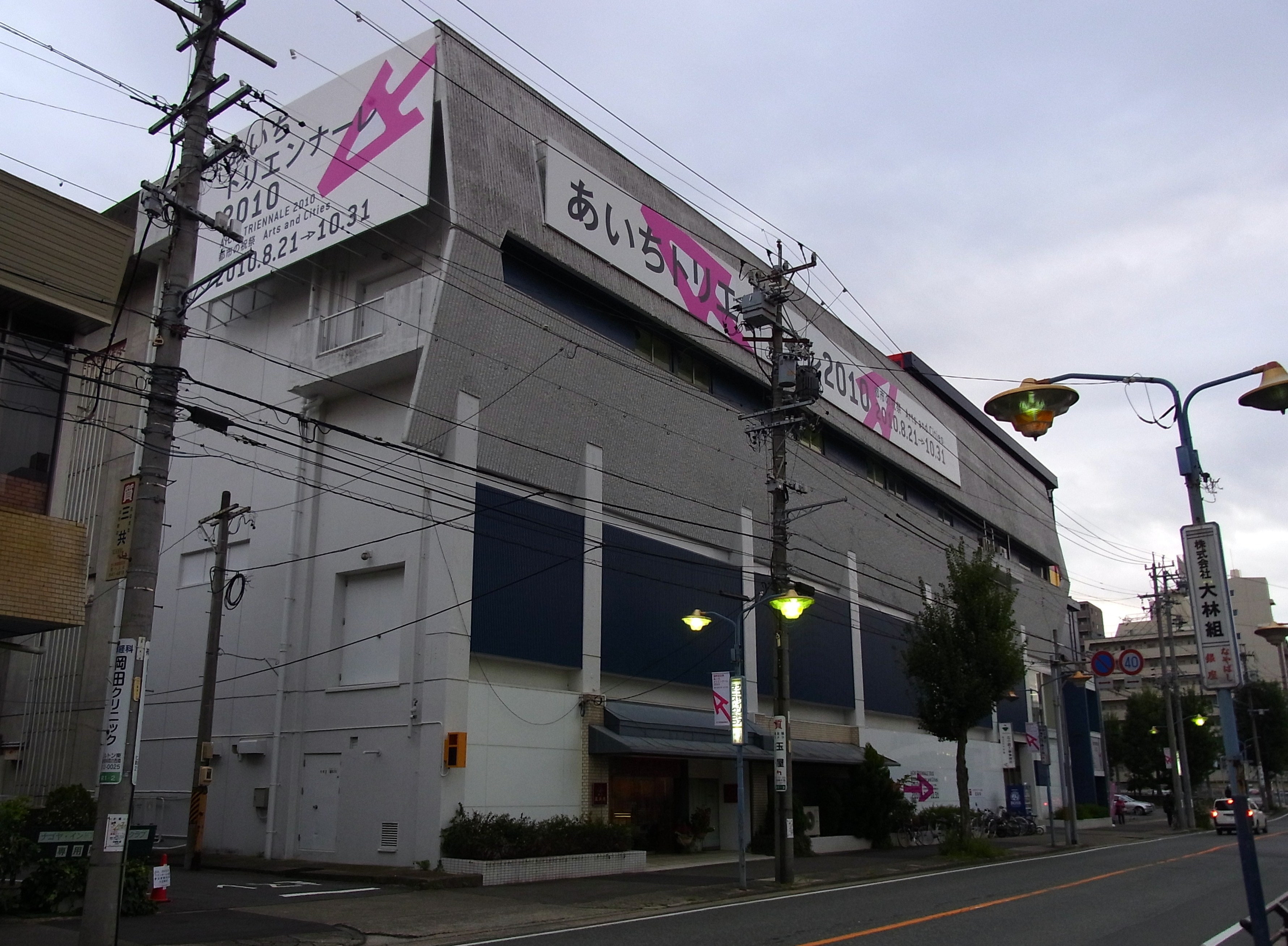 Nayabashi Place of Aichi Triennare 2010.